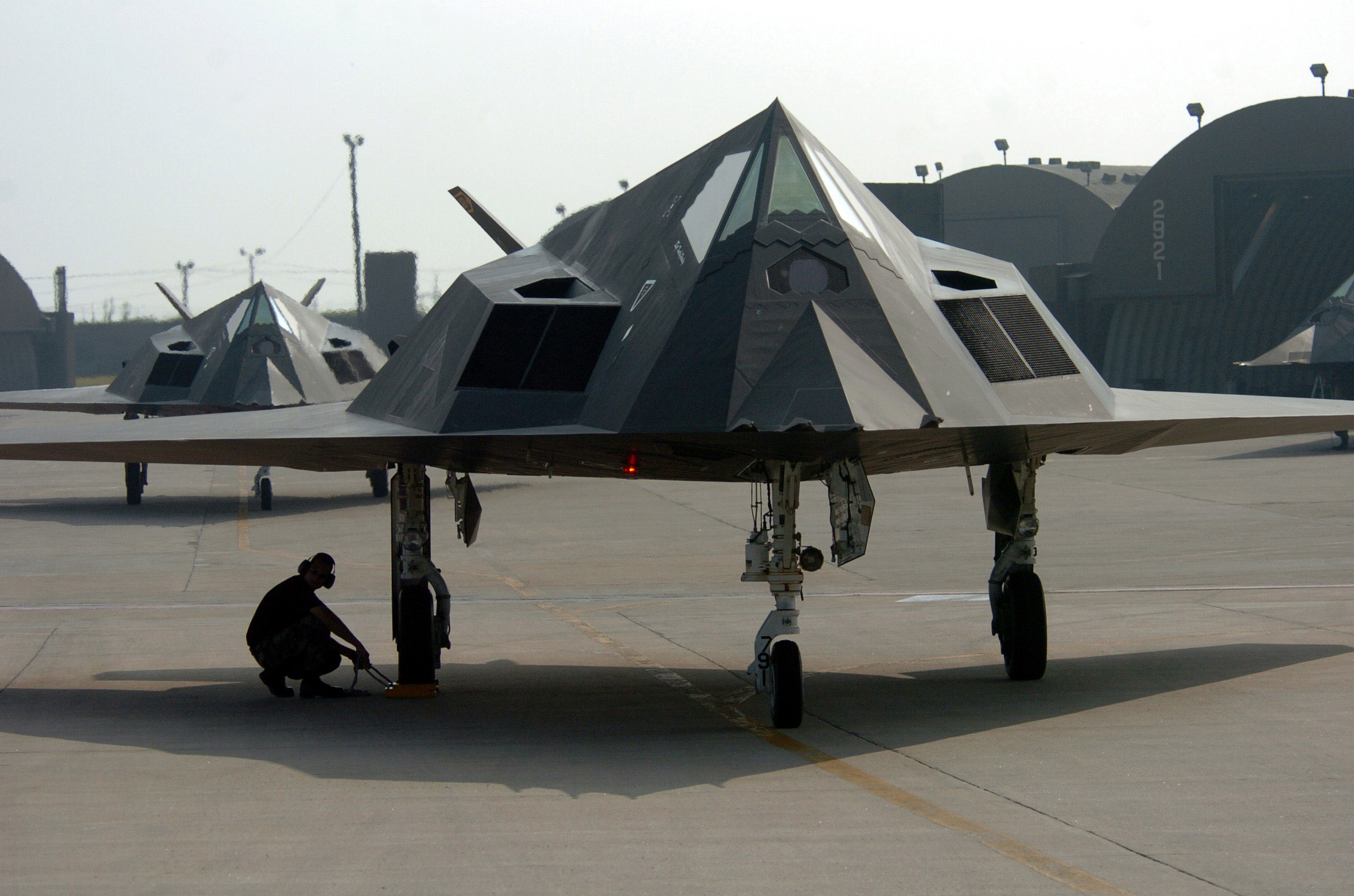 Senior Airman Tony Kepo'o prepares to pull the landing gear wheel chock of an F-117 Nighthawk fighter during an end of runway check at Kunsan Air Base, Korea, on Aug. 15, 2004. Kepo'o is a crew chief from the 49th Maintenance Squadron at Holloman Air Force Base, N.M. About 300 airmen from Holloman are currently deployed here to Kunsan supporting Air Expeditionary Forces operations in the Pacific Region.